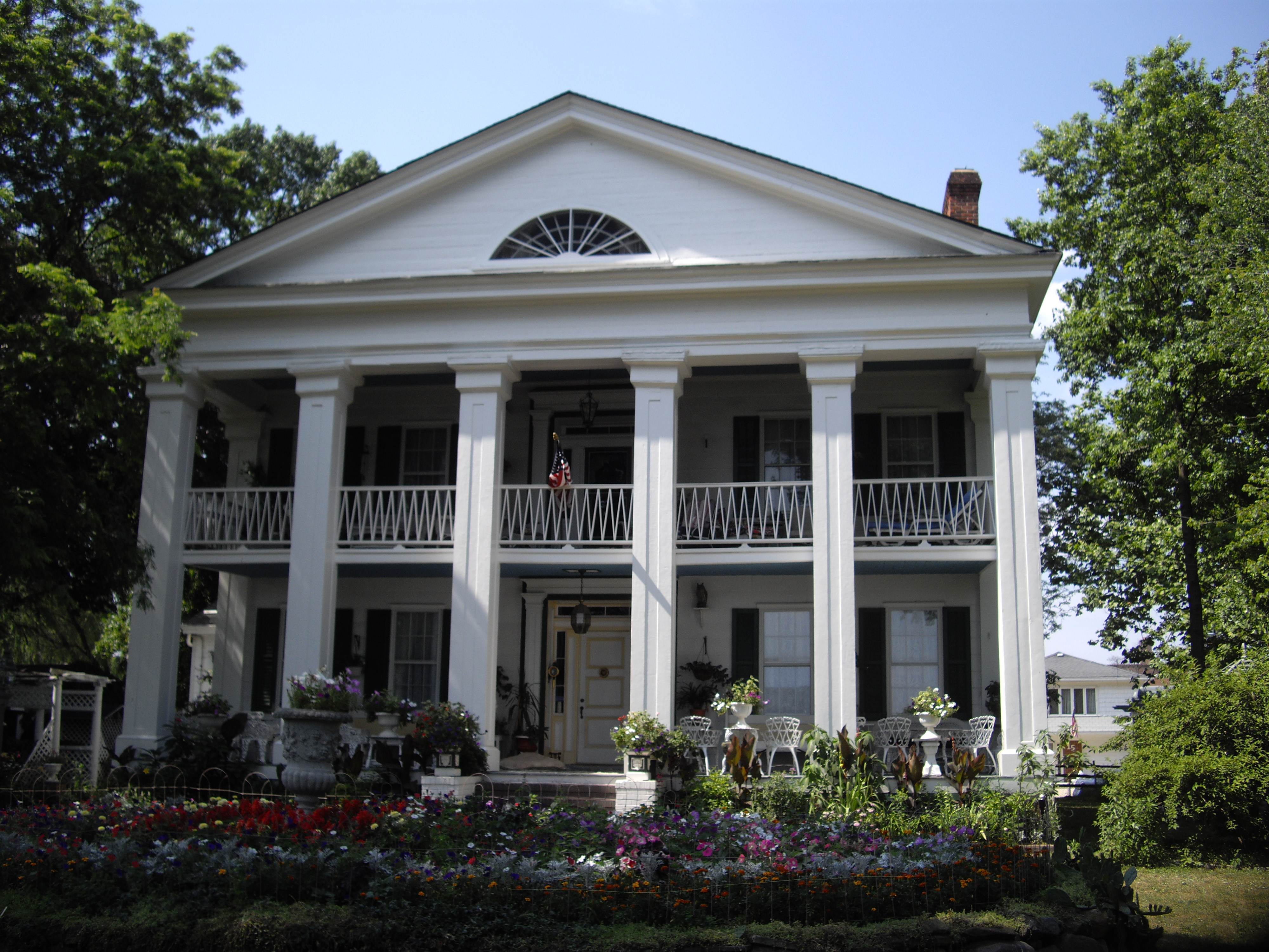 Seguine Mansion — on Staten Island, NY. Housing the Seguine-Burke Mansion Museum.